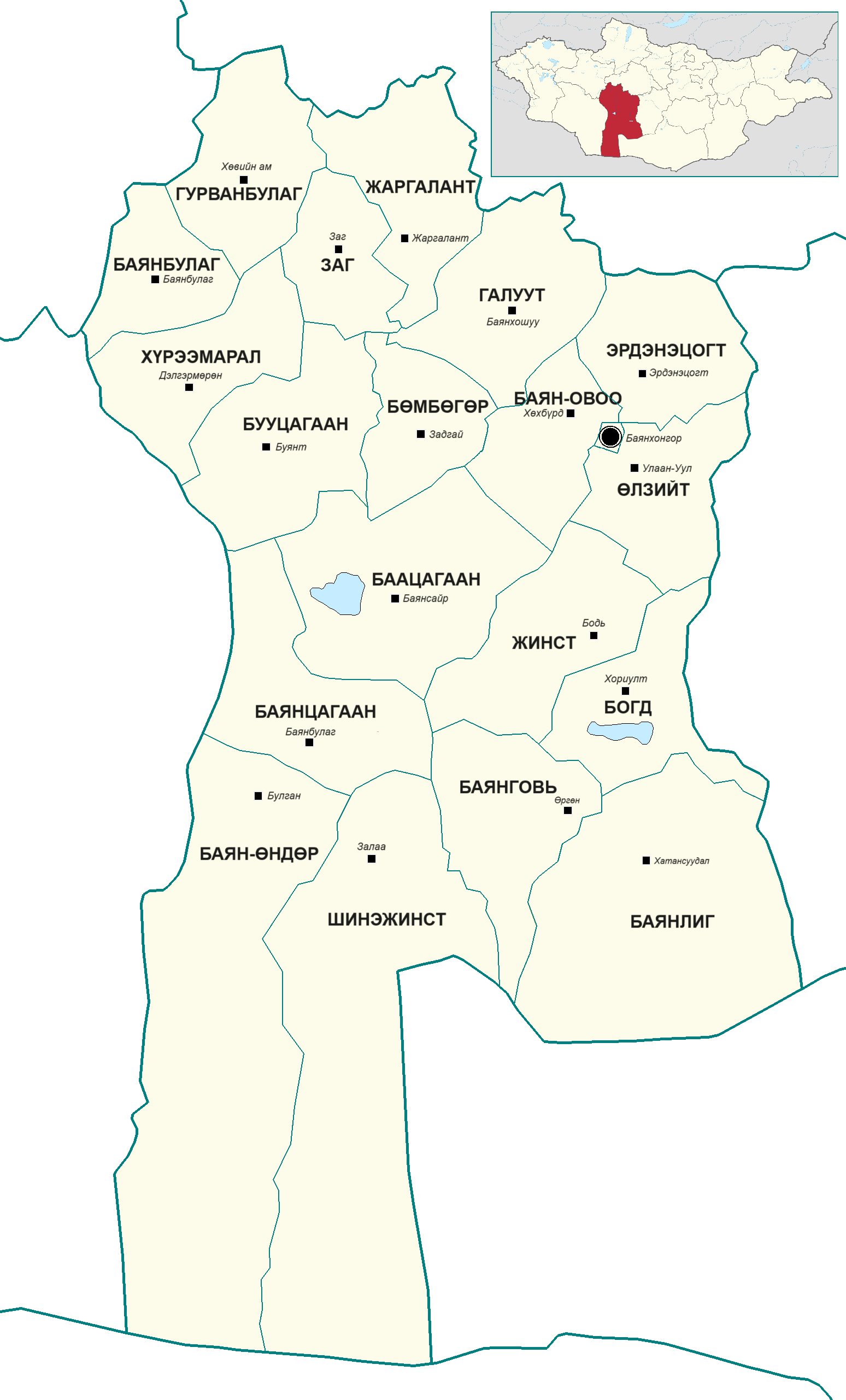 Map of the Bayanhongor aimag with the sums